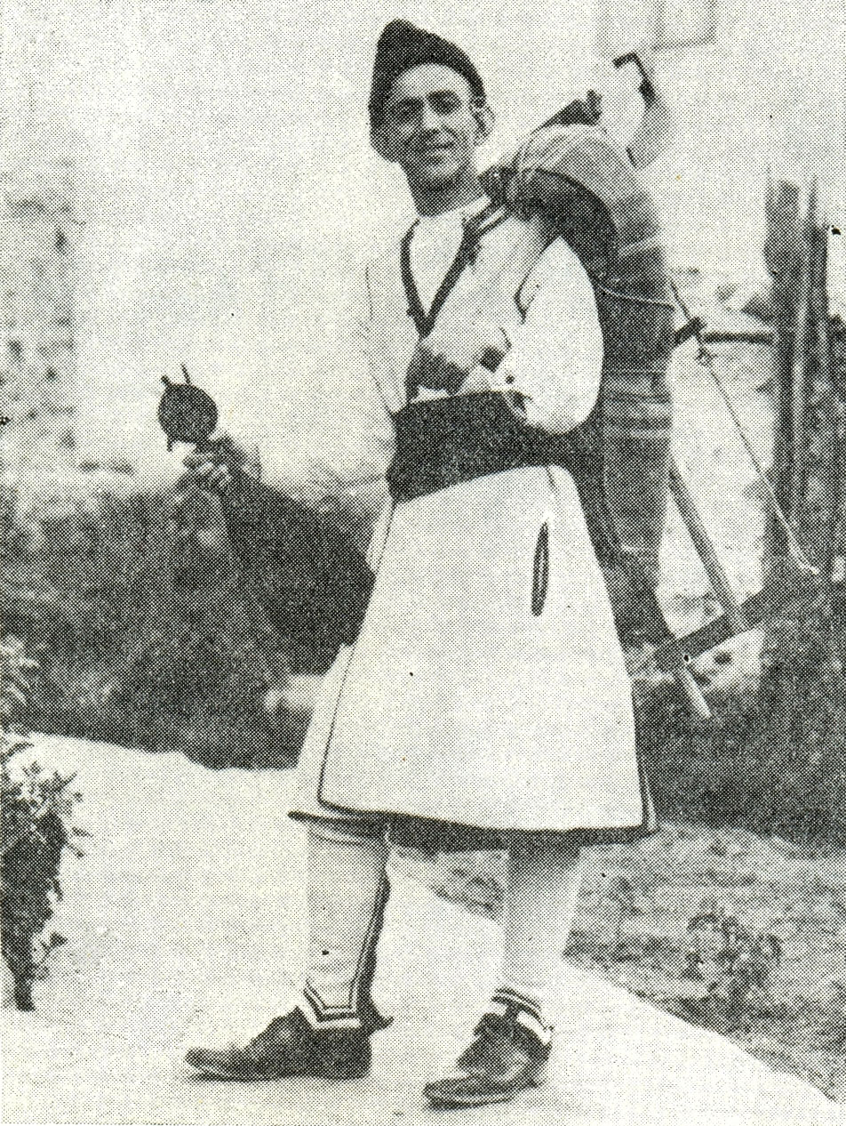 Young man in shopp dress from Tran, Bulgaria 1921